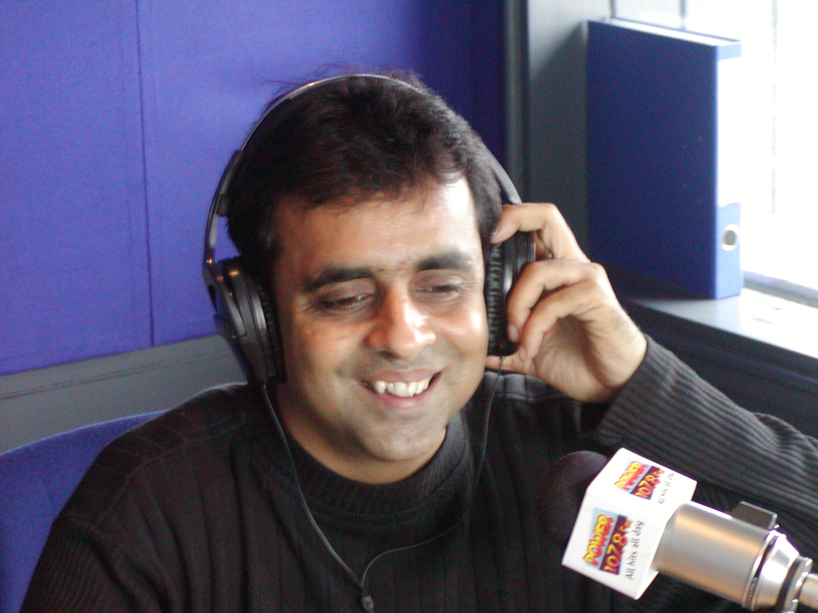 me on power fm